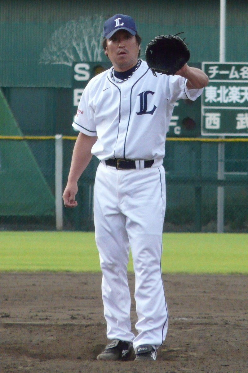 Shinya-Okamoto